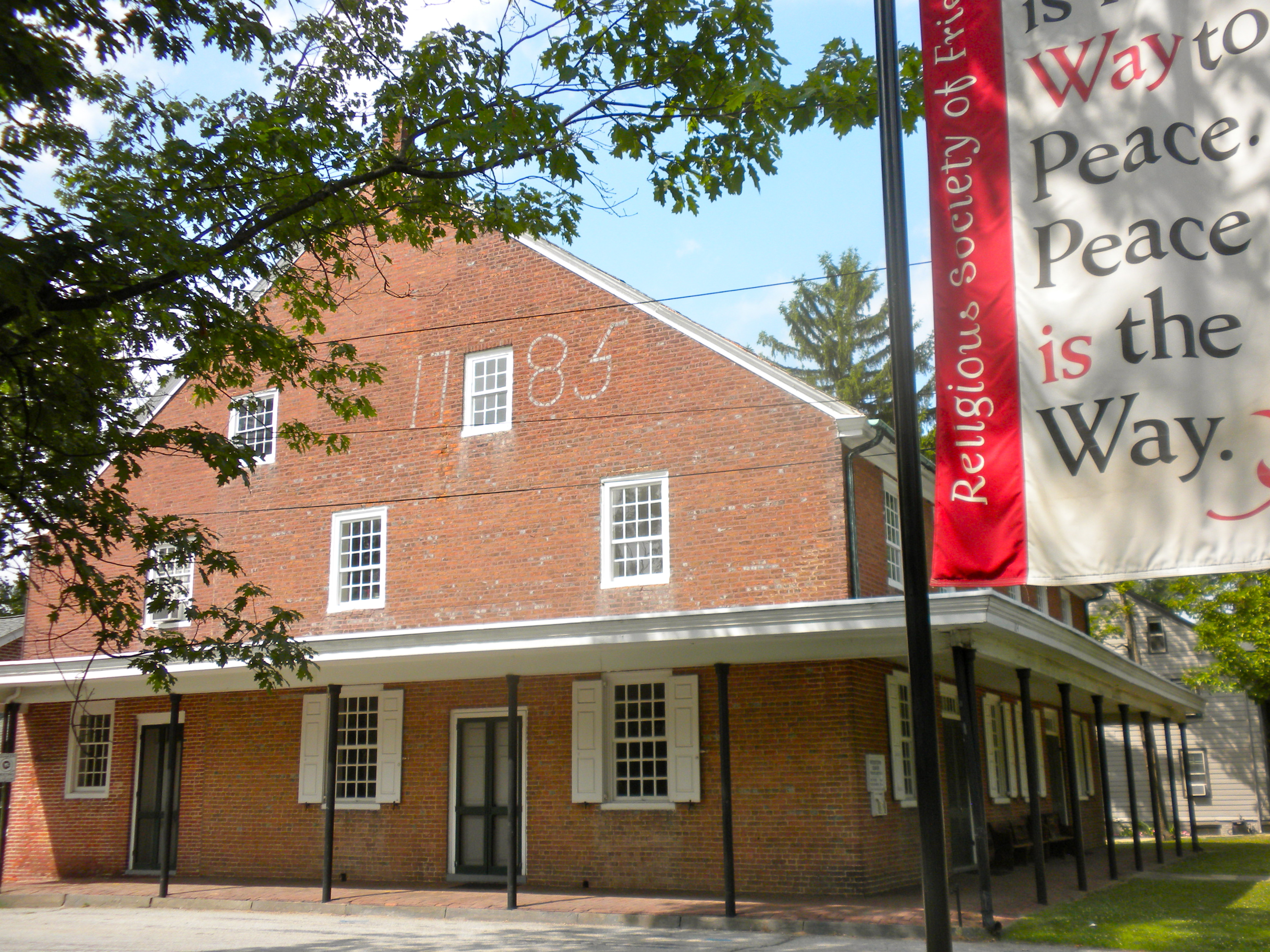 Woodstown, New Jersey Friends Meeting. A monthly meeting, one of the larger meetings of the Philadelphia Yearly Meeting. Building completed in 1785. Located at 104 North Main Street, Woodstown, NJ 08098-1226 (856) 769-9839